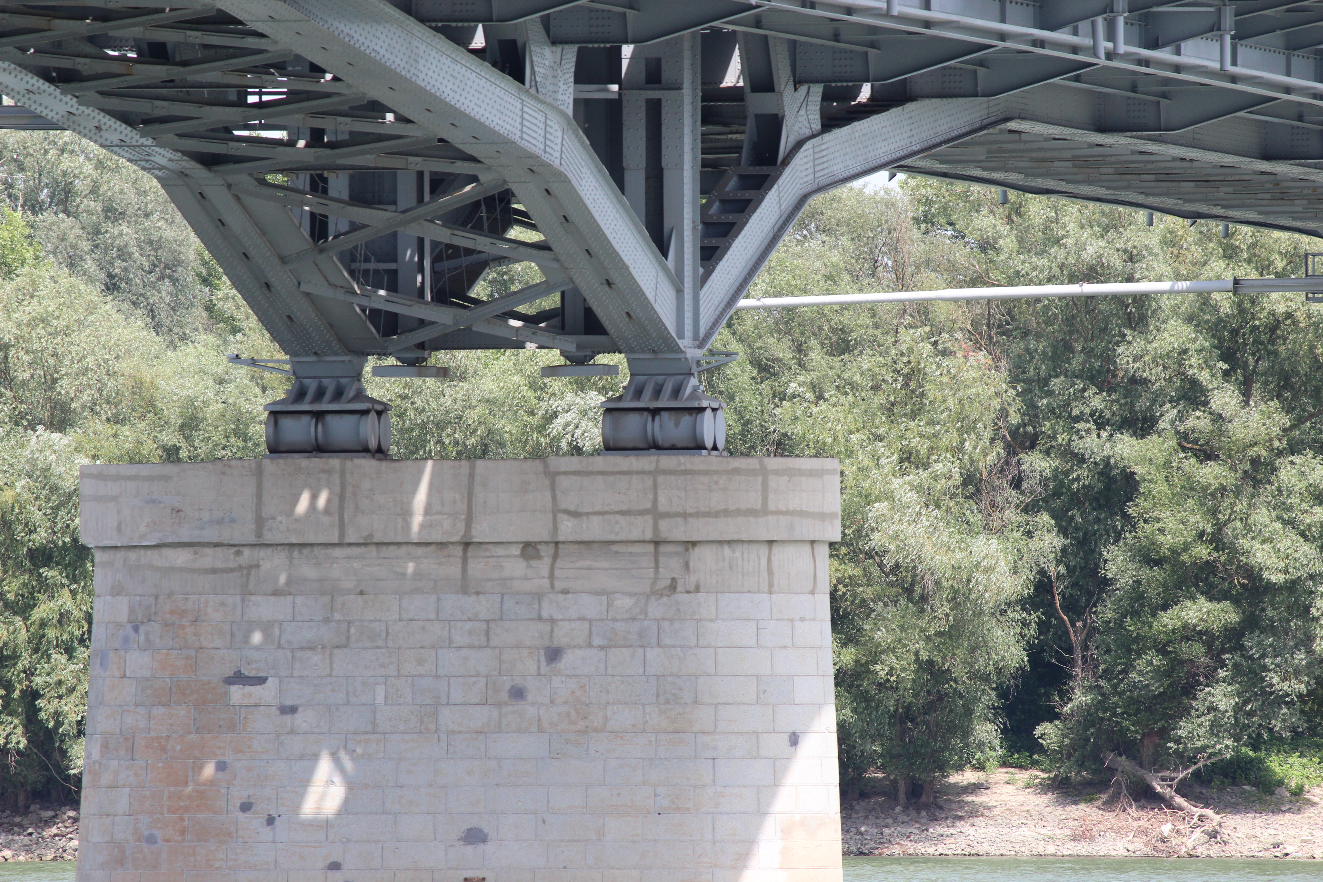 A pillar with rollers of István Türr Bridge (Baja, Hungary).